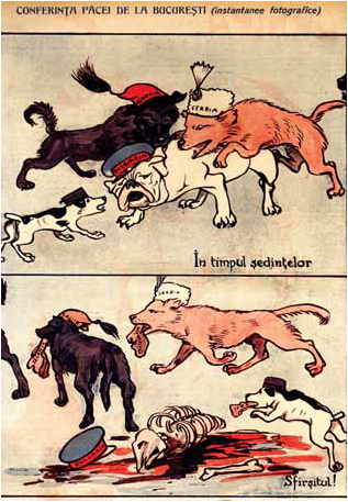 Bucharest peace treaty - 1913